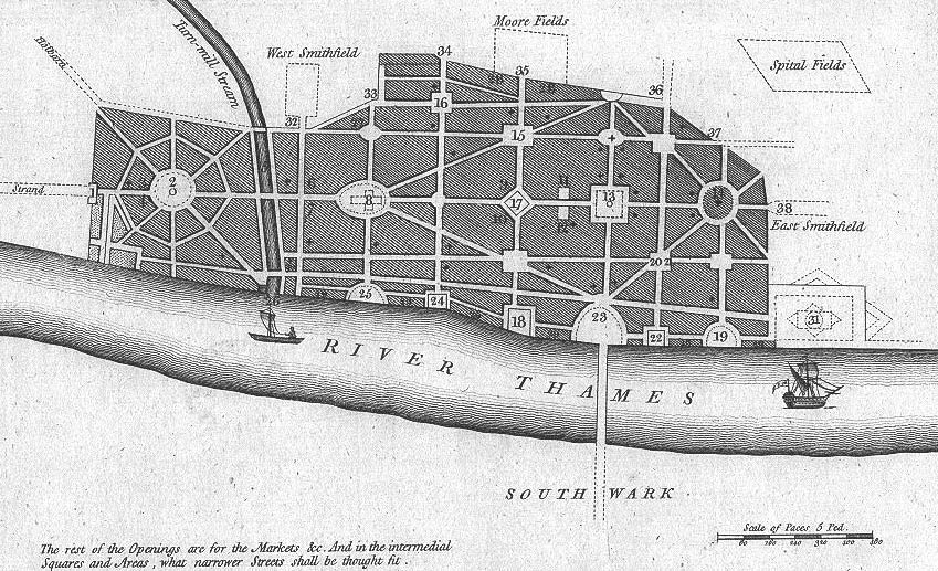 John Evelyn's plan for the rebuilding of London after the Great Fire. Districts which were not destroyed by the fire are not shown. 8 marks the site of St Paul's Cathedral.